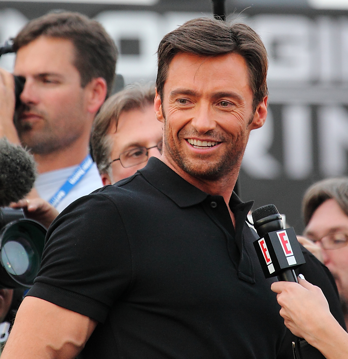 Hugh Jackman at the X-Men Origins: Wolverine premiere in Tempe, Arizona.